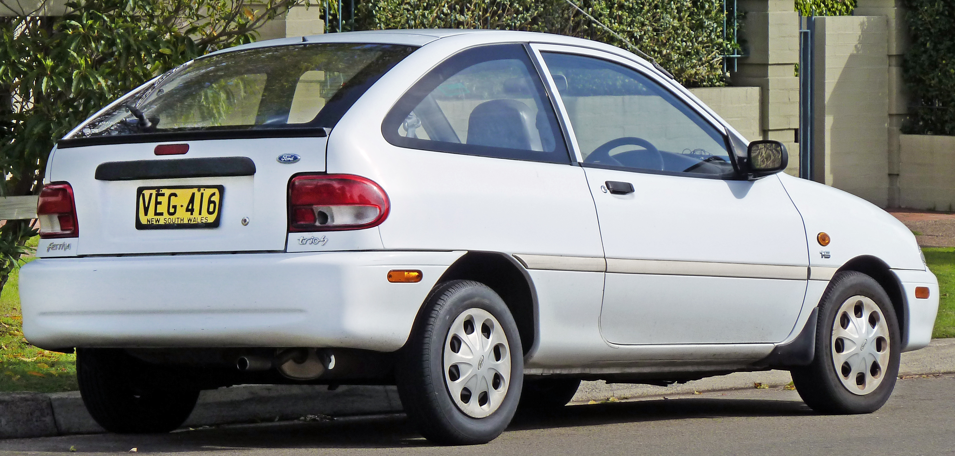 1998 Ford Festiva (WF) Trio S 3-door hatchback. Photographed in Sylvania, New South Wales, Australia.